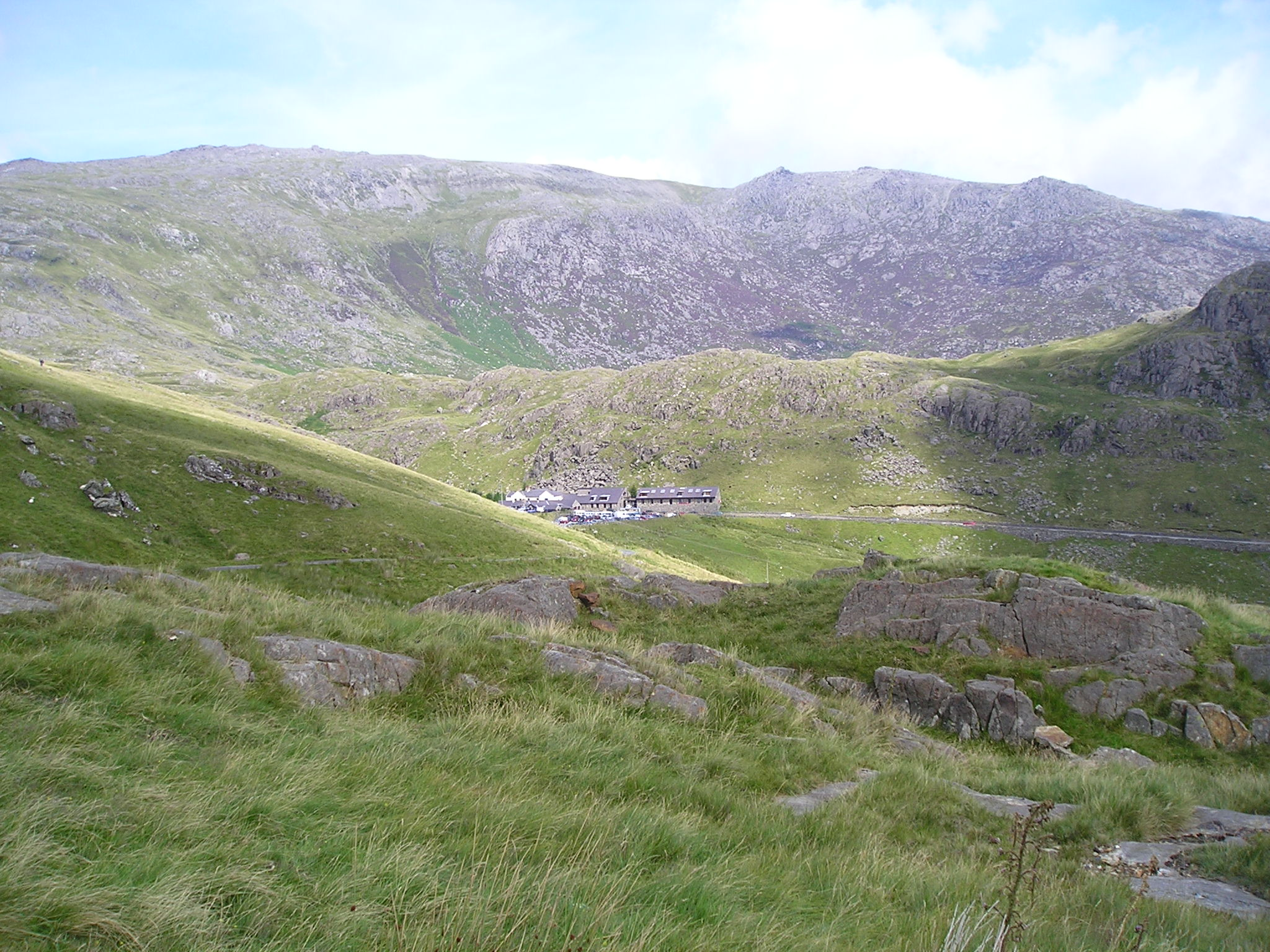 Photograph taken by me, Noel Walley